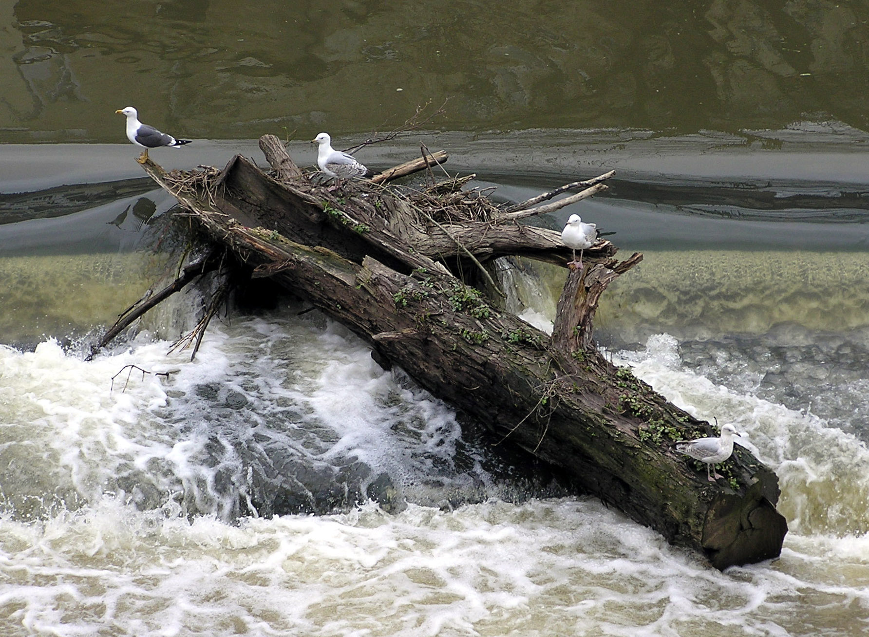 Driftwood caught on a weir of the River Avon, in the centre of the city of Bath, England.